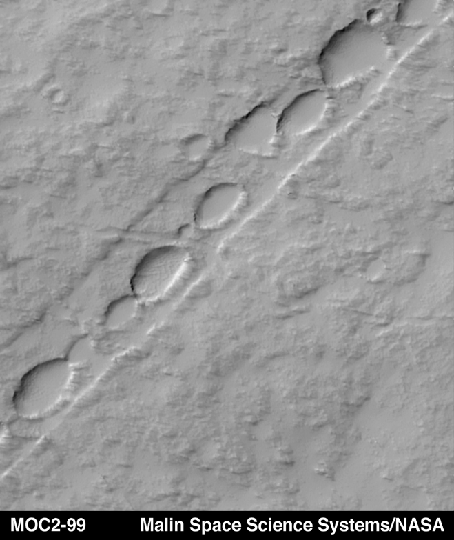 Original caption Pavonis Mons is the middle of the three large Tharsis Montes volcanoes in the martian western hemisphere. Located on the equator at about 113°W longitude, Pavonis Mons stands as much as 7 kilometers (4 miles) above the surrounding plain. The Mars Global Surveyor (MGS) Mars Orbiter Camera (MOC) recently spied the above chain of elliptical pits on the lower east flank of Pavonis Mons. The picture covers an area 3 kilometers (1.9 miles) wide by 3.4 kilometers (2.1 miles) in length. The pits are aligned down the center of a 485 meters-(530 yards)-wide, shallow trough. The straight trough and the pits were both formed by collapse associated with faulting. The scarp on each side of the trough is a fault line--troughs of this type are known to geologists as graben. Such features are typically formed when the ground is being moved apart by tectonic forces, or when the ground is uplifted by molten rock injected into the near sub-surface from deeper underground. Both processes may be contributing to the features seen on Pavonis Mons. The pits follow the trend of these faults, and indicate the locus of collapse. Illumination is from the upper left in this image.